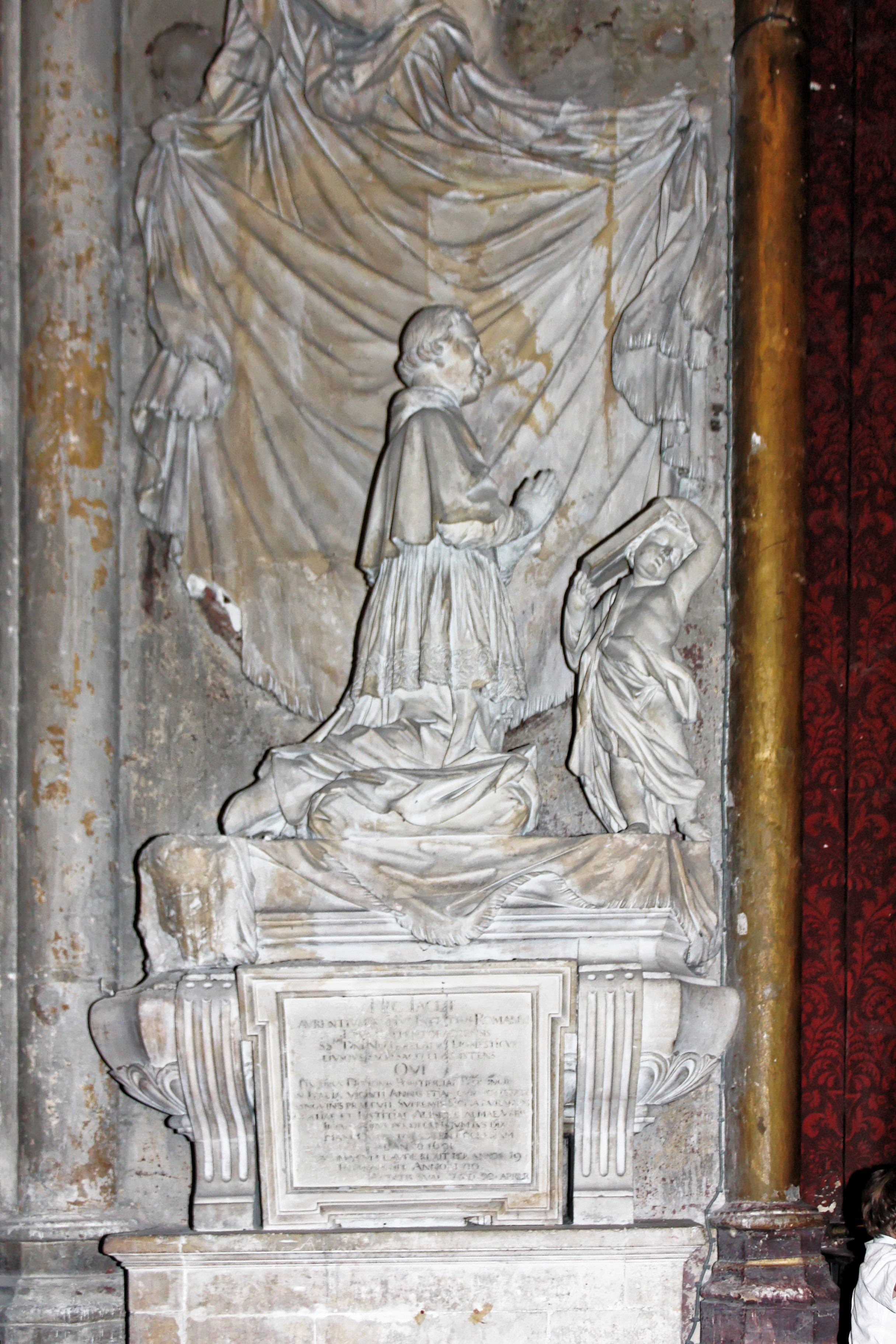 The tomb of Laurent Buti, bishop of Carpentras from 1689 to 1710, is an allegory in which time raises a corner of the veil on the life of the bishop, represented in prayer, kneeling on a cushion placed on his coffin, while a putti presents him the vulgate that was his rule of life.